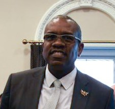 A headshot of Albert Bryan created from a larger image.